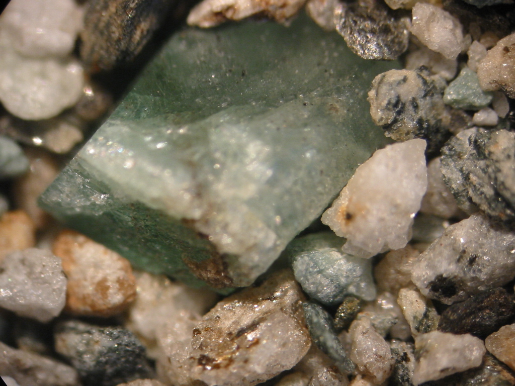 Sand and emerald from Habachtal, Salzburg, Austria. Made with Canon A40 PowerShot digital camera and Novex AP8 microscope, by Renée Janssen. Magnification: The emerald shown is approximately 3 mm in size.